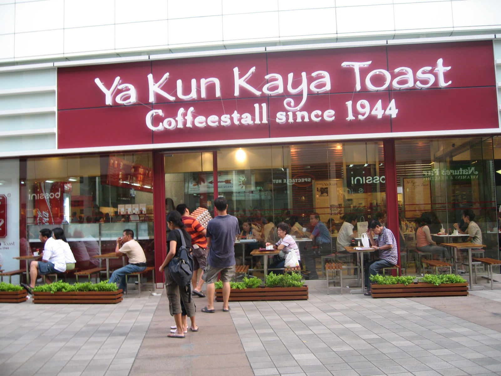 Ya Kun Kaya Toast in HDB Hub.